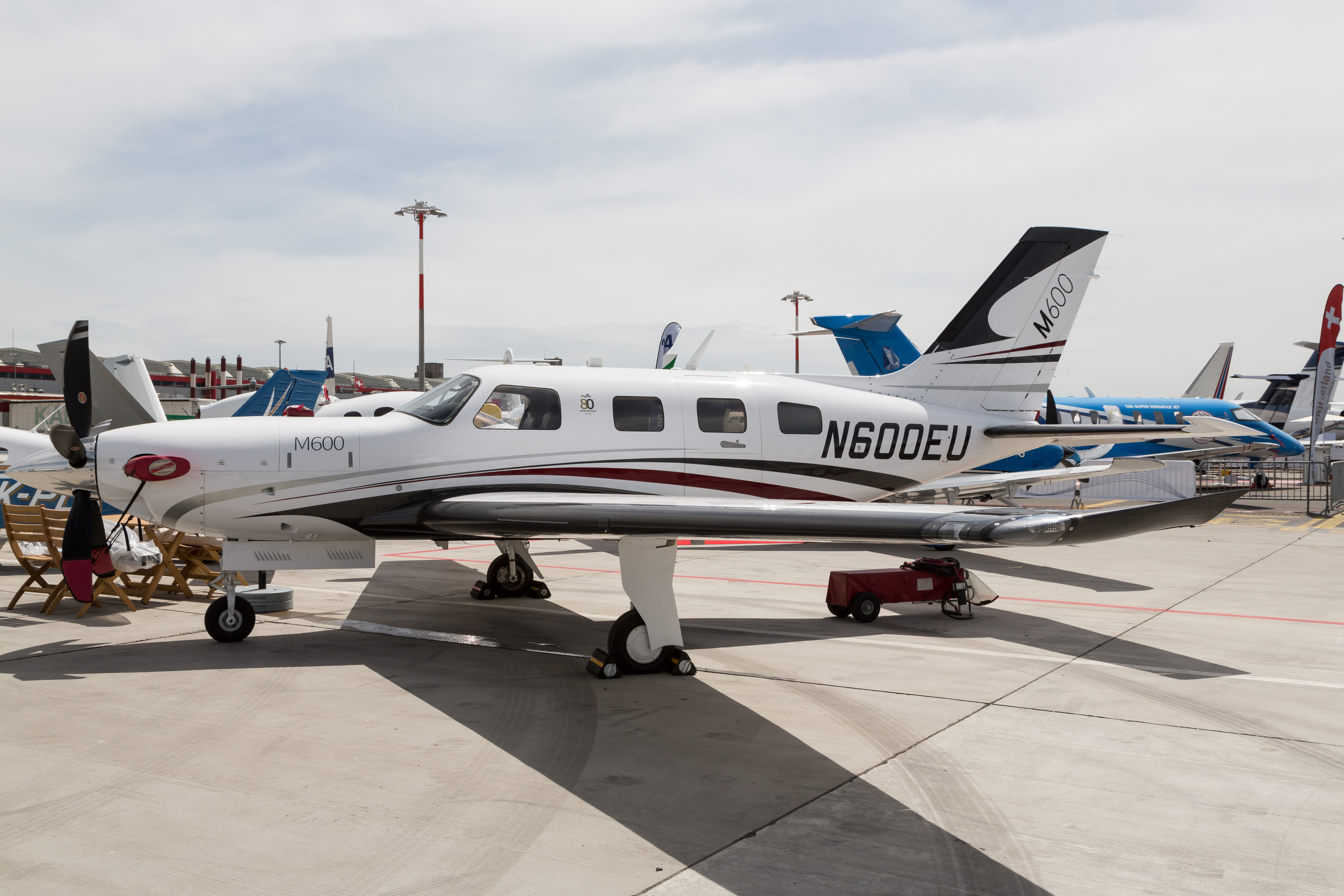 Static display preview, EBACE 2018